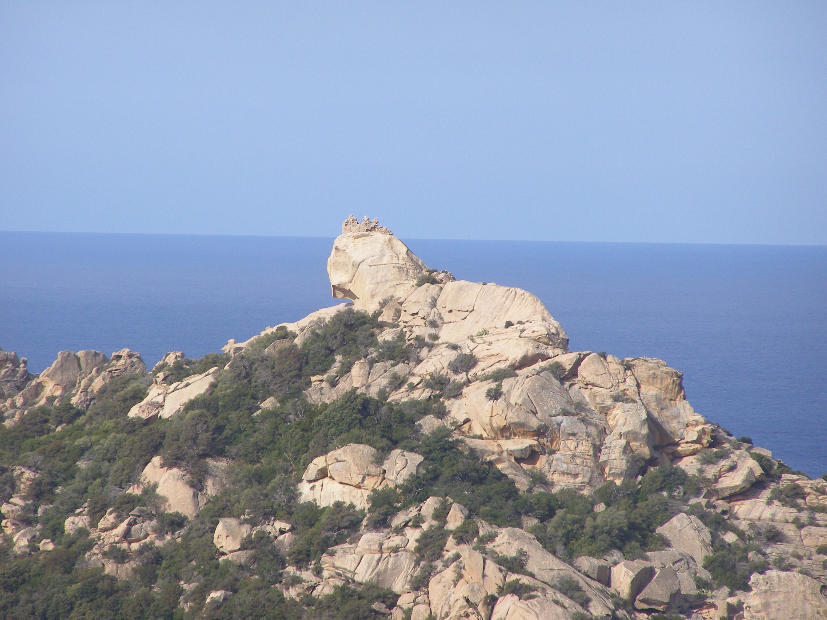 Lion de Roccapina .